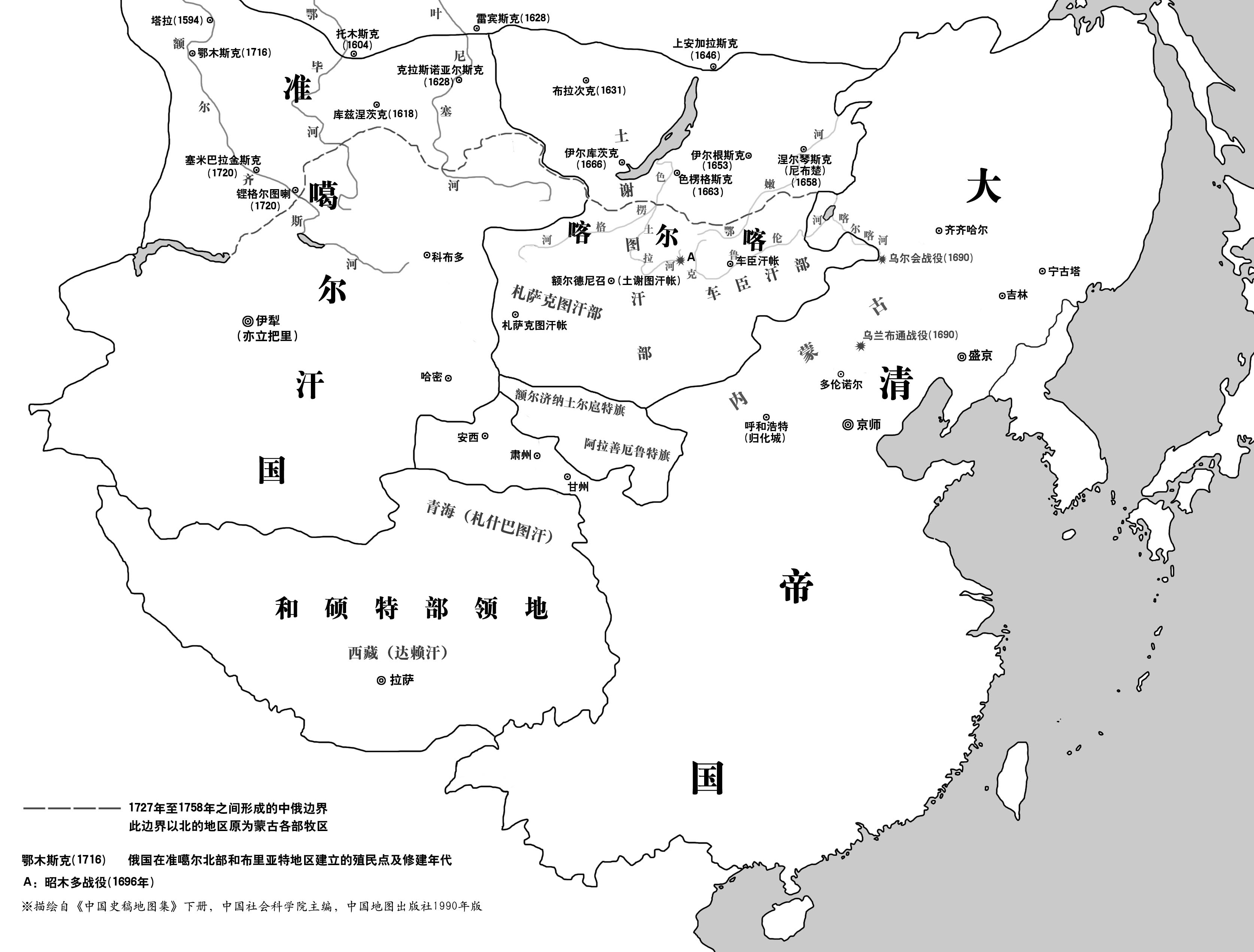 Qing Dynasty, Khalkha and Dzungaria